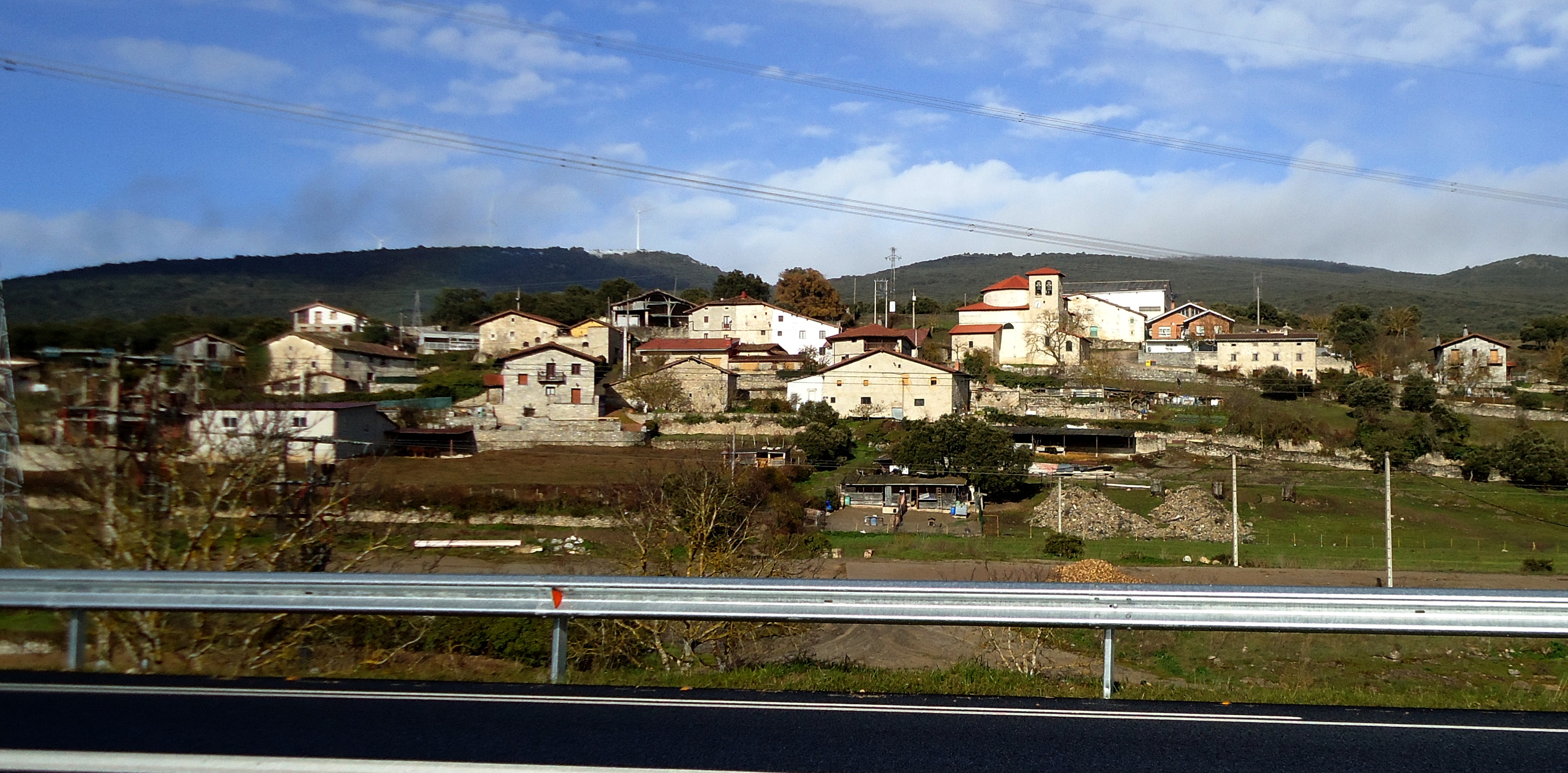 Mandaita village (Iruña-Oka, Araba, Basque Country, Spain)